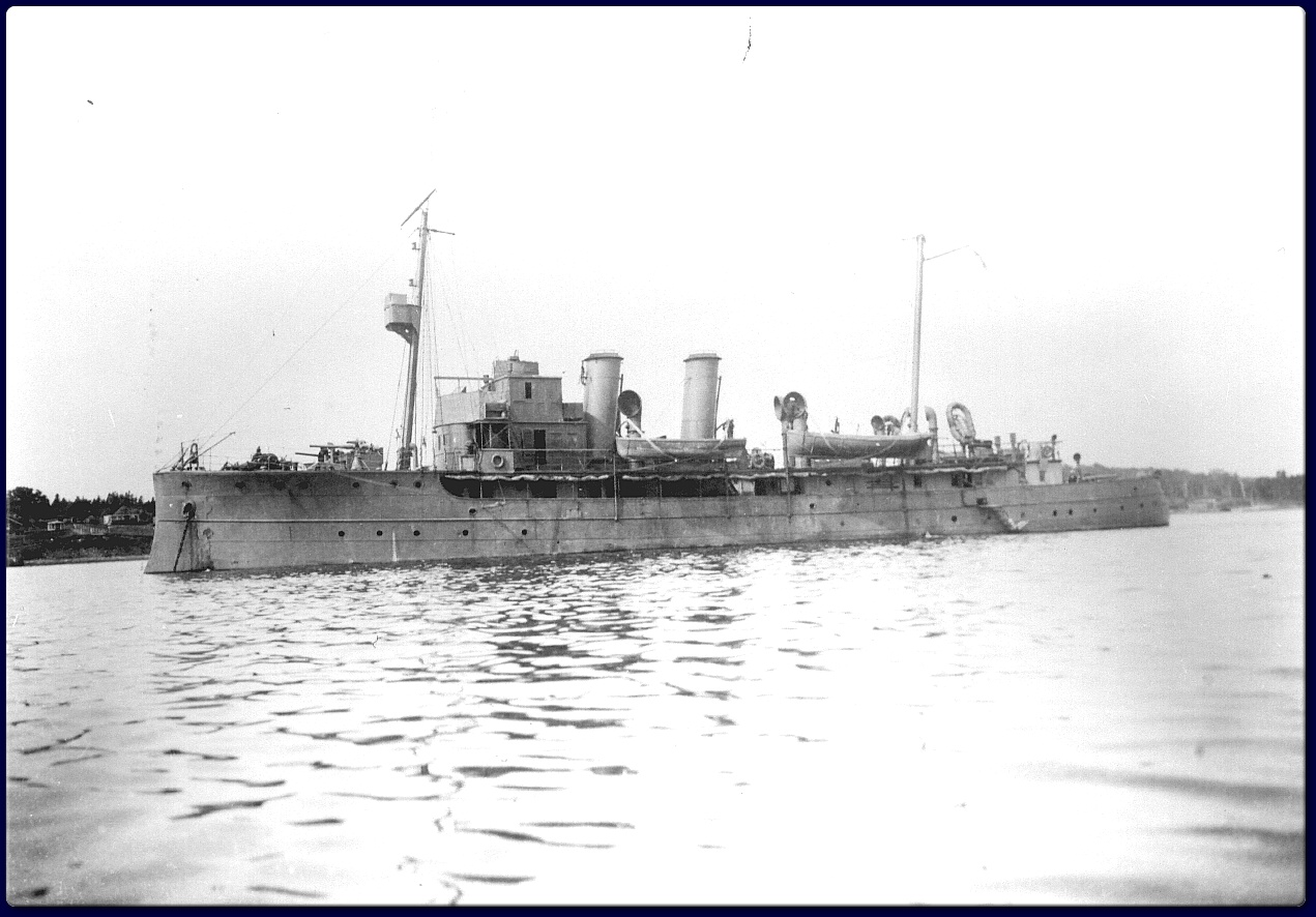 Canadian customs service ship CGS Margaret. She served in World War I as HMCS Margaret.